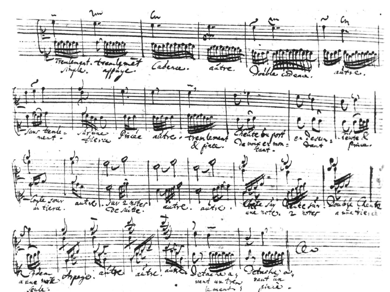 Ornament table copied by Johann Sebastian Bach from Pièces de Clavecin by Jean-Henri d'Anglebert